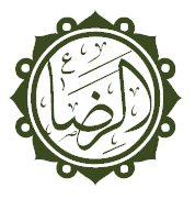 name of shite imam